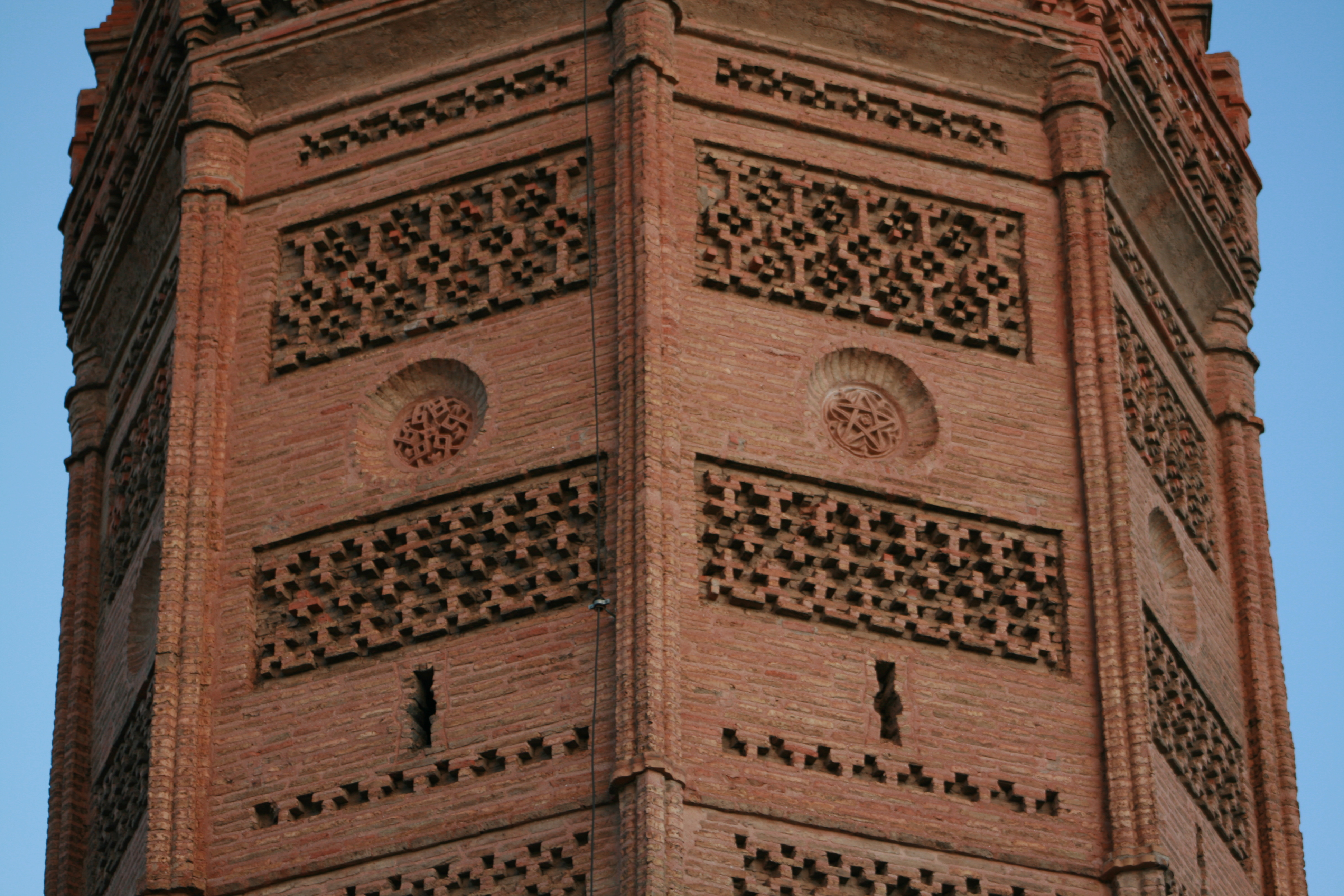 Church of San Andrés, Calatayud, Spain